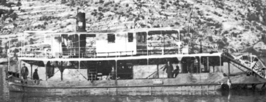 Picture of steamboat Skanderbeg